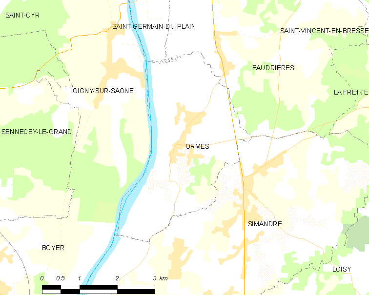 Map of French municipality